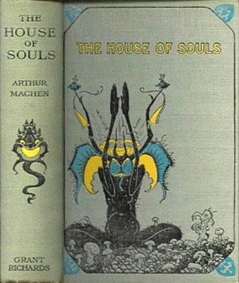 The House of Souls by Arthur Machen (London: Grant Richards, 1906), with cover designs by Sidney Sime (1867–1941). (U.S. 1906 publication [Boston: Dana Estes] has identical cover except for publisher's name.)